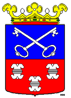 Coat of arms of Abcoude, Gemeentewapen Abcoude